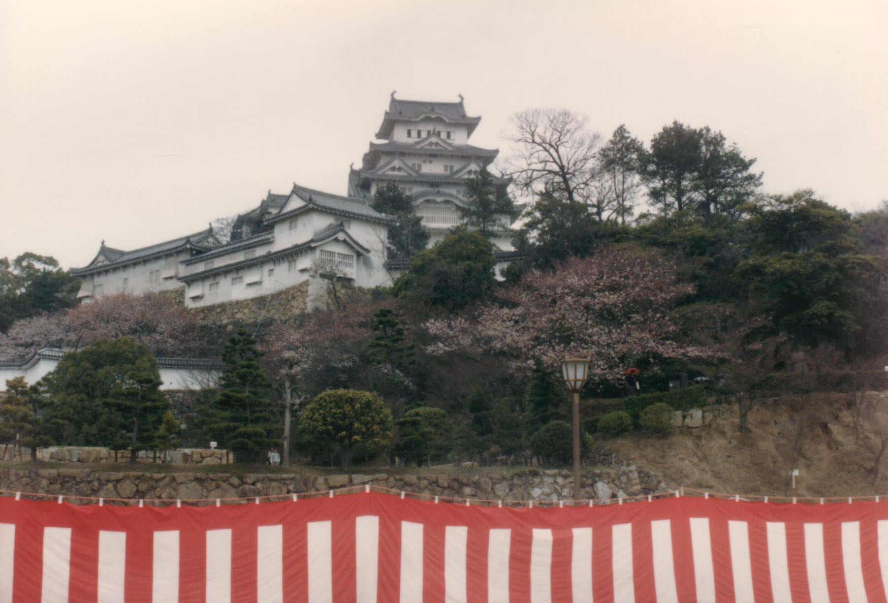 It is Himeji castle which it photographed in Himeji Hyogo, Japan.